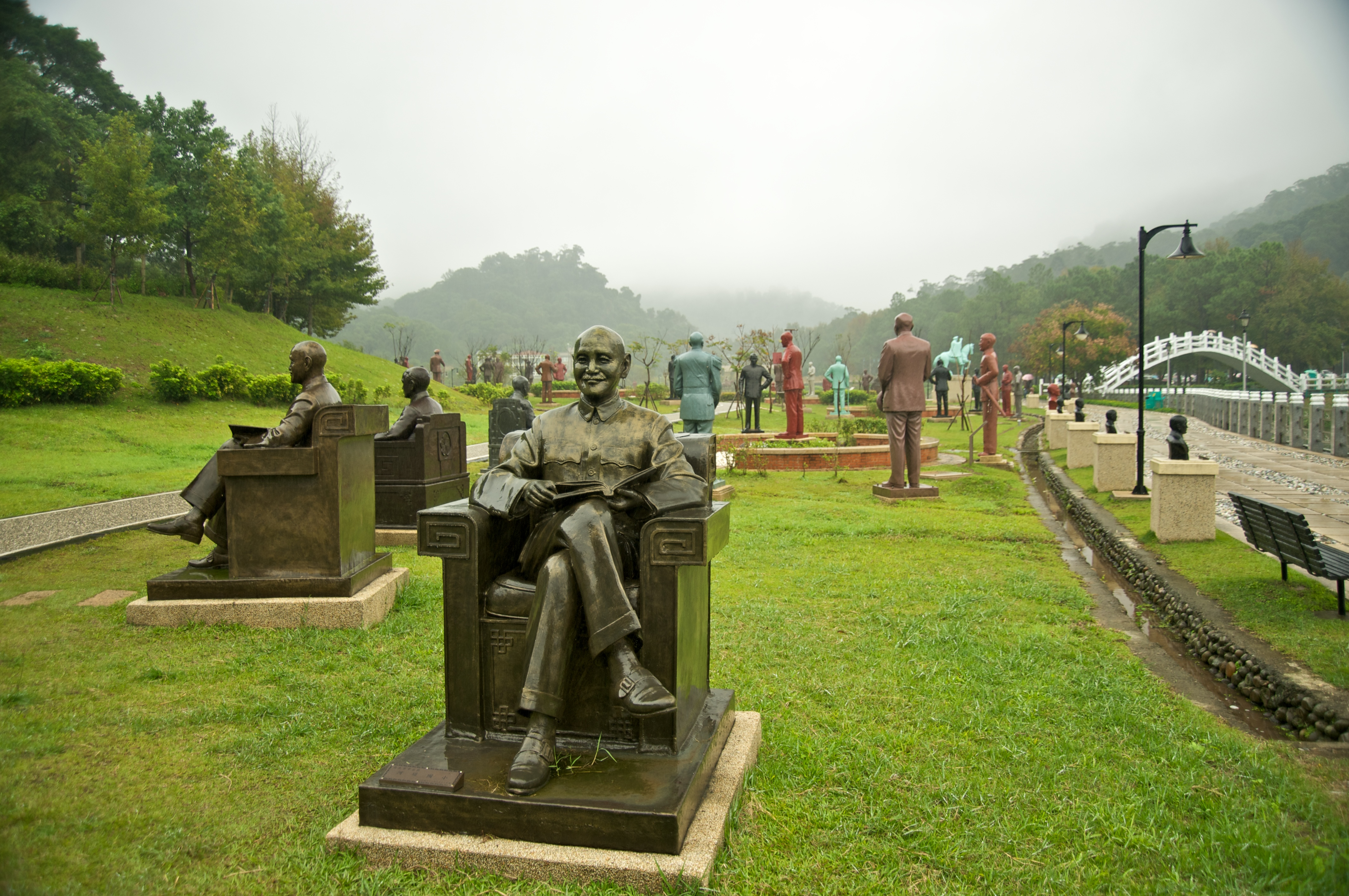 Garden of the Generalissimos, part of the Cihu Mausoleum of Chiang Kai-shek in Taoyuan County, Taiwan